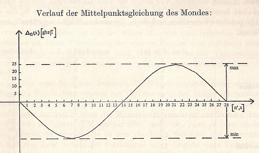 Graph of the Tibetan moon equation